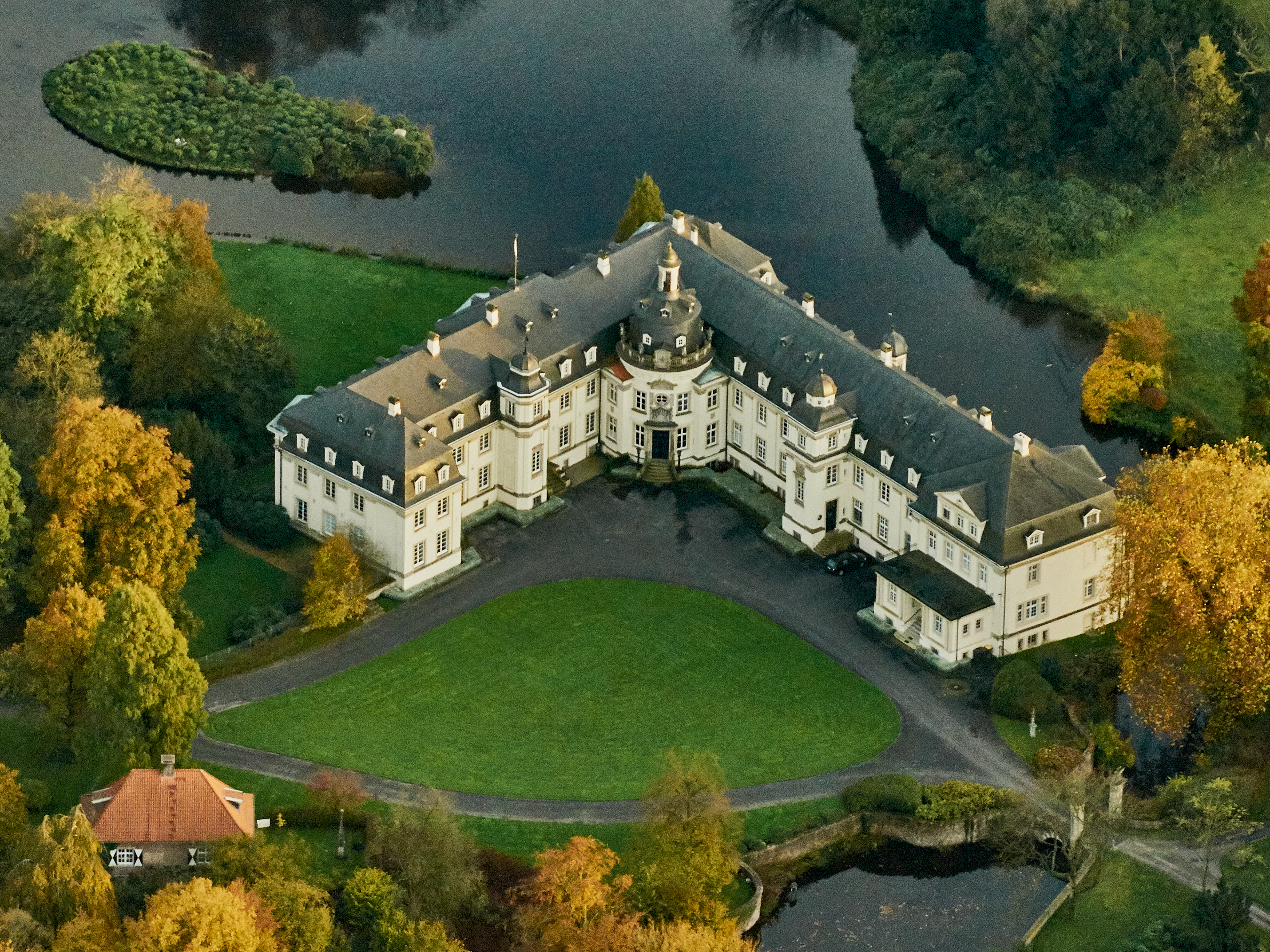 Schloss Varlar is a castle in Rosendahl, North Rhine-Westphalia, Germany.